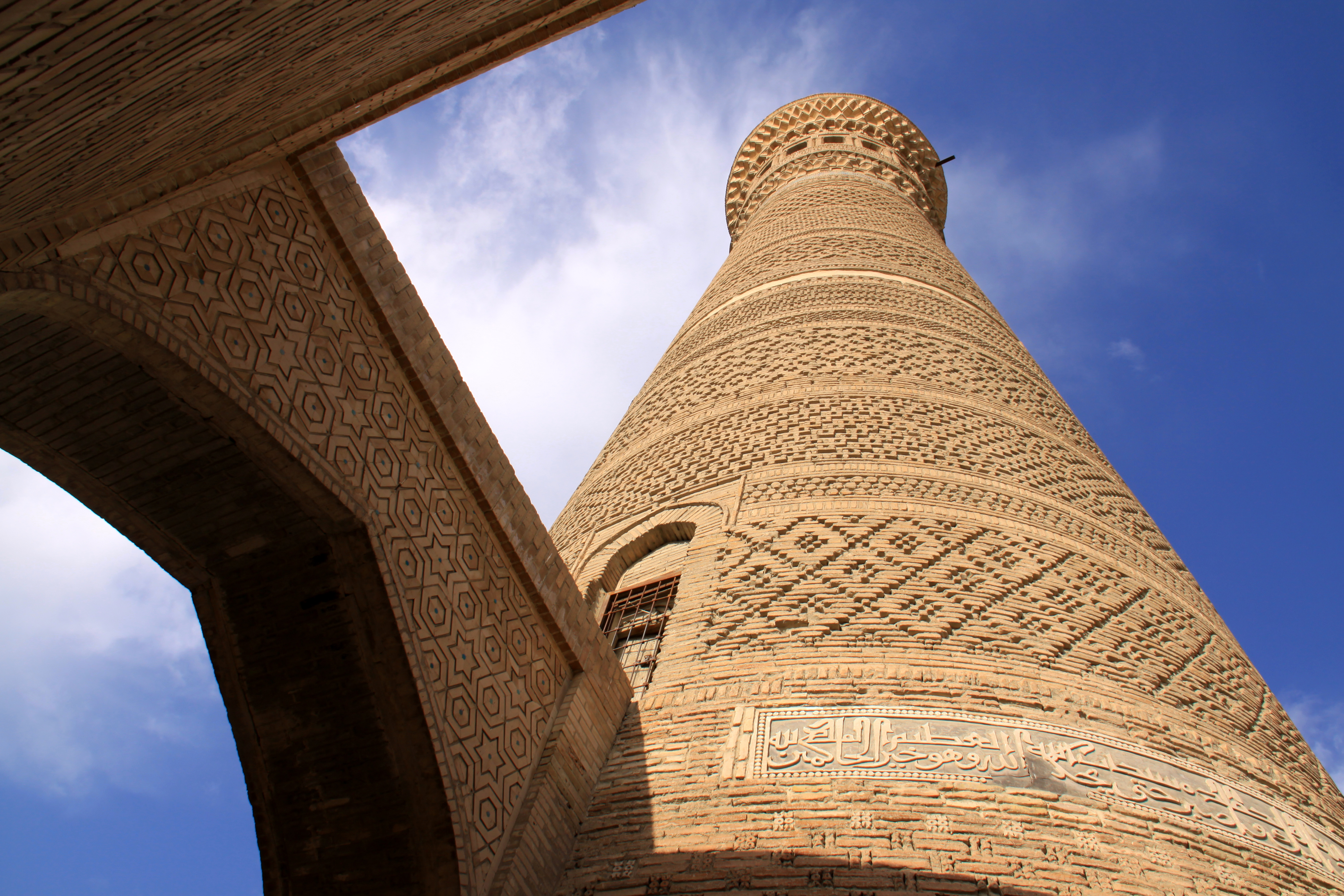 Uzbekistan, Bukhara minaret Kalon